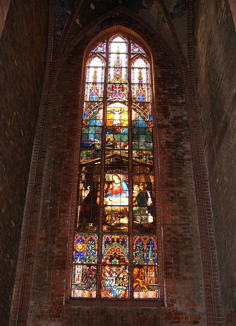 Christmas window ( 1847 ) in the Schwerin Cathedral Schwerin, Germany, designed by Gaston Lenthe, made by Ernst Gillmeister